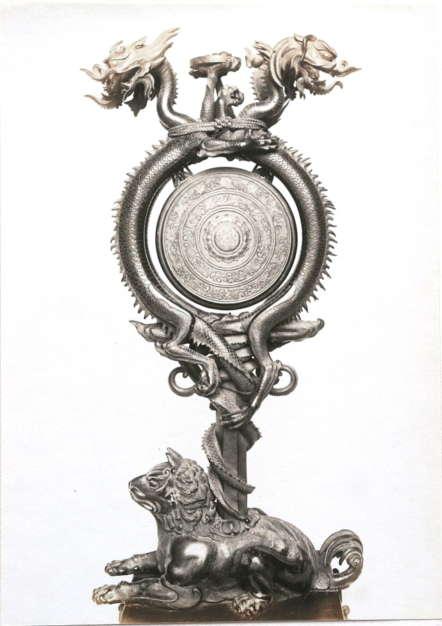 Buddhist ritual gong stand (kagenkei), bronze gilt(most worn out). Planted in ACE734 in front of the Buddha in the Western Golden Hall. The gong had been lost and reproduced in late 12th-early 13th century. Total height: 97cm Kōfuku-ji, Nara, Japan